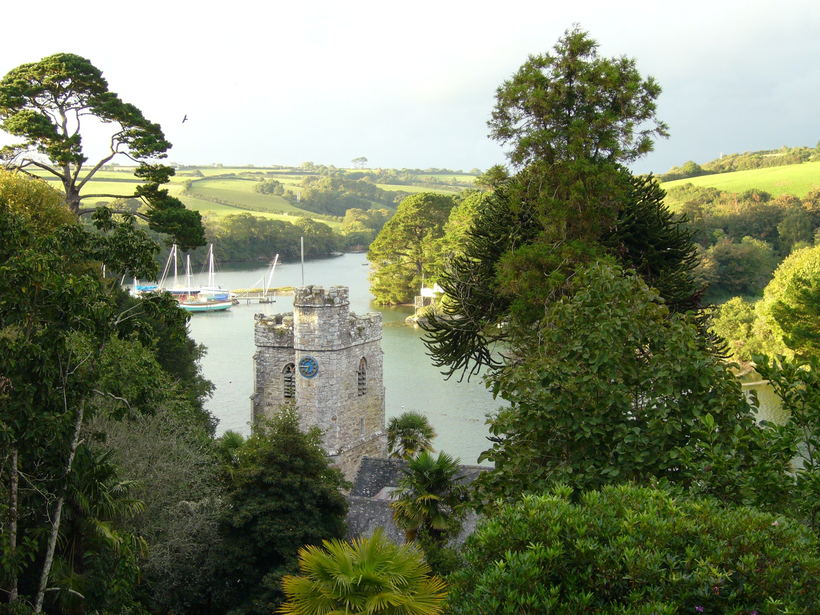 St Just in Roseland in Cornwall. The view from the hill above the church, looking across to Carrick Roads. Required attribution is: Photo by Tom Oates.